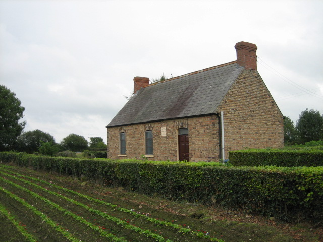 Bannfoot Orange Hall. Built in 1910, it is home to L O L 27 Bannfoot Golden Star.